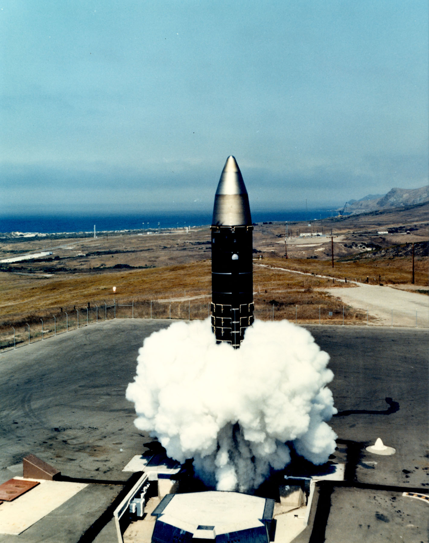 Peacekeeper missile is ejected from silo.